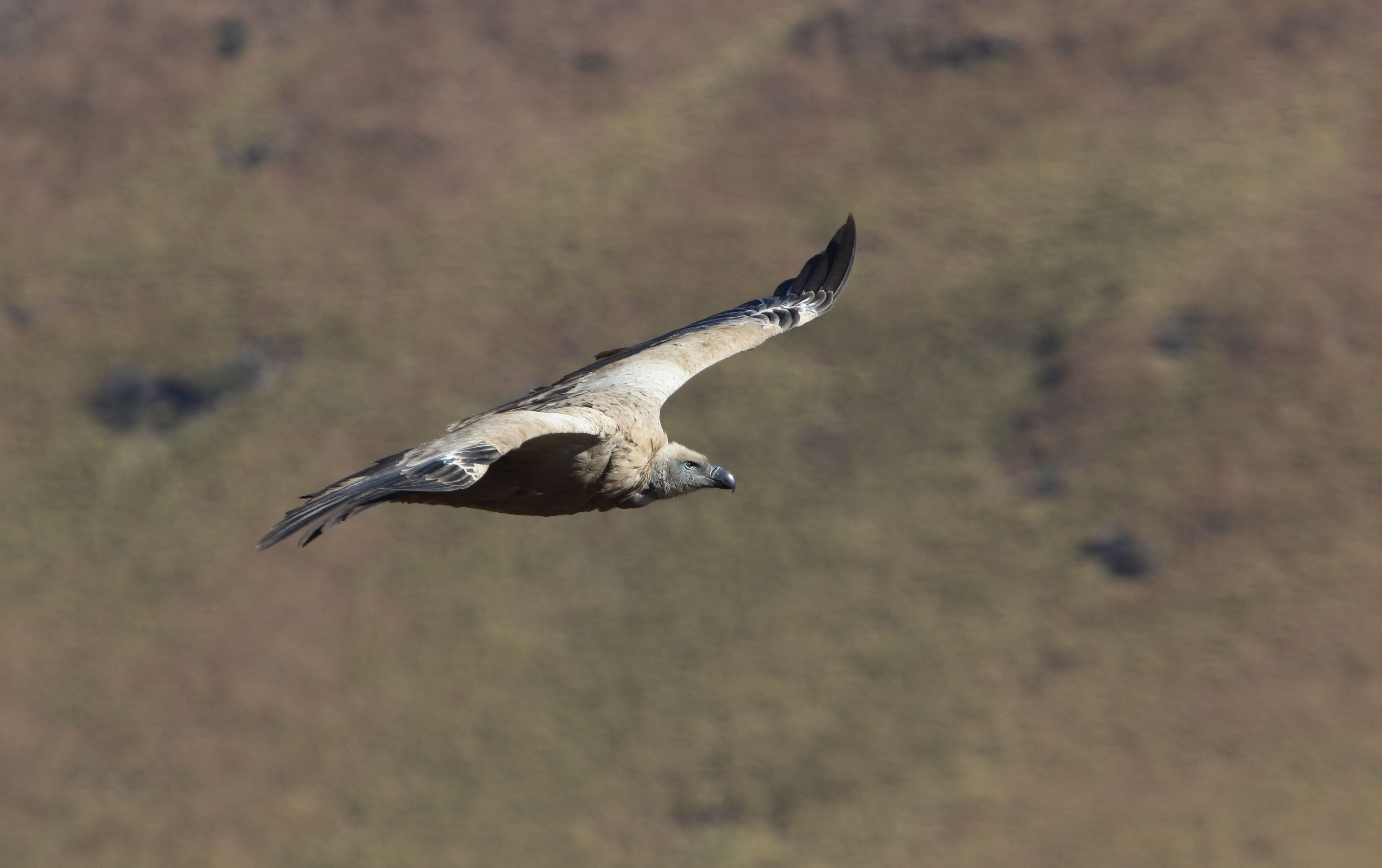 Cape vulture Gyps coprotheres in flight at Mike's Pass, KwaZulu-Natal Drakensberg, South Africa.